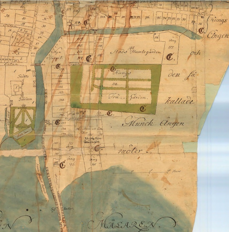 Map of Munkholmen in Västerås of 1784